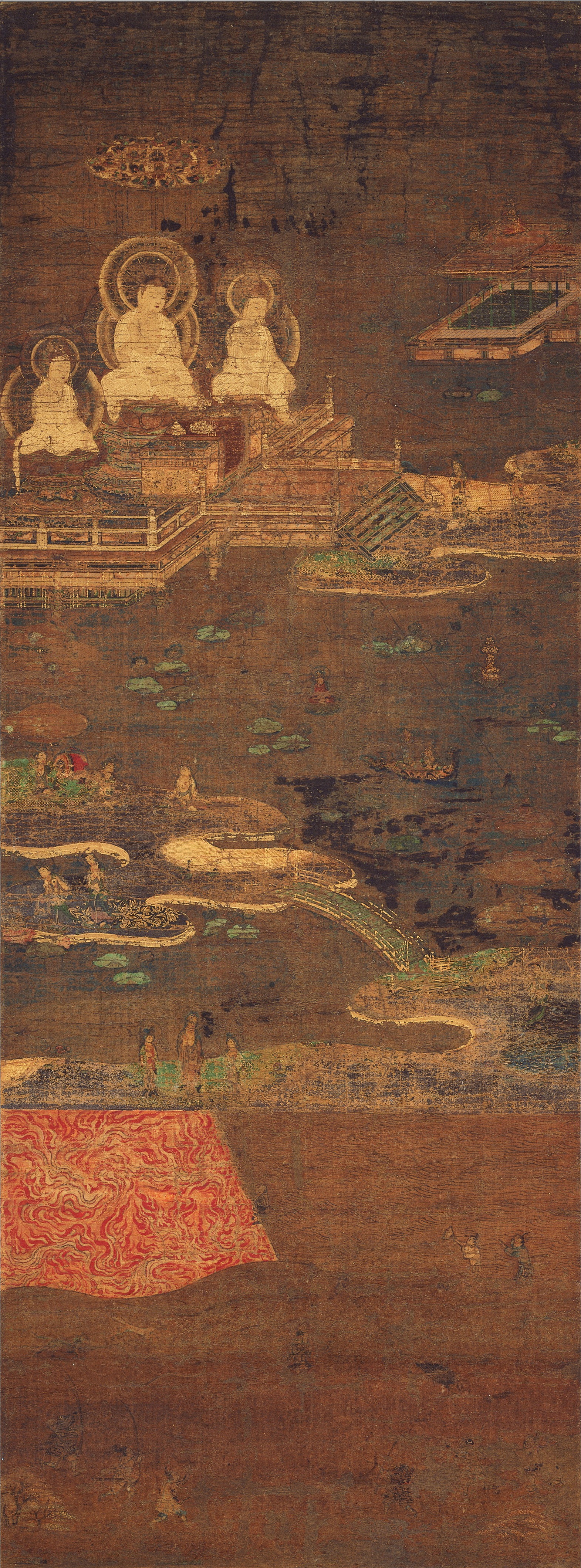 White Path to Paradise between Two Rivers of Worldly Vice, Nara National Museum, Japan